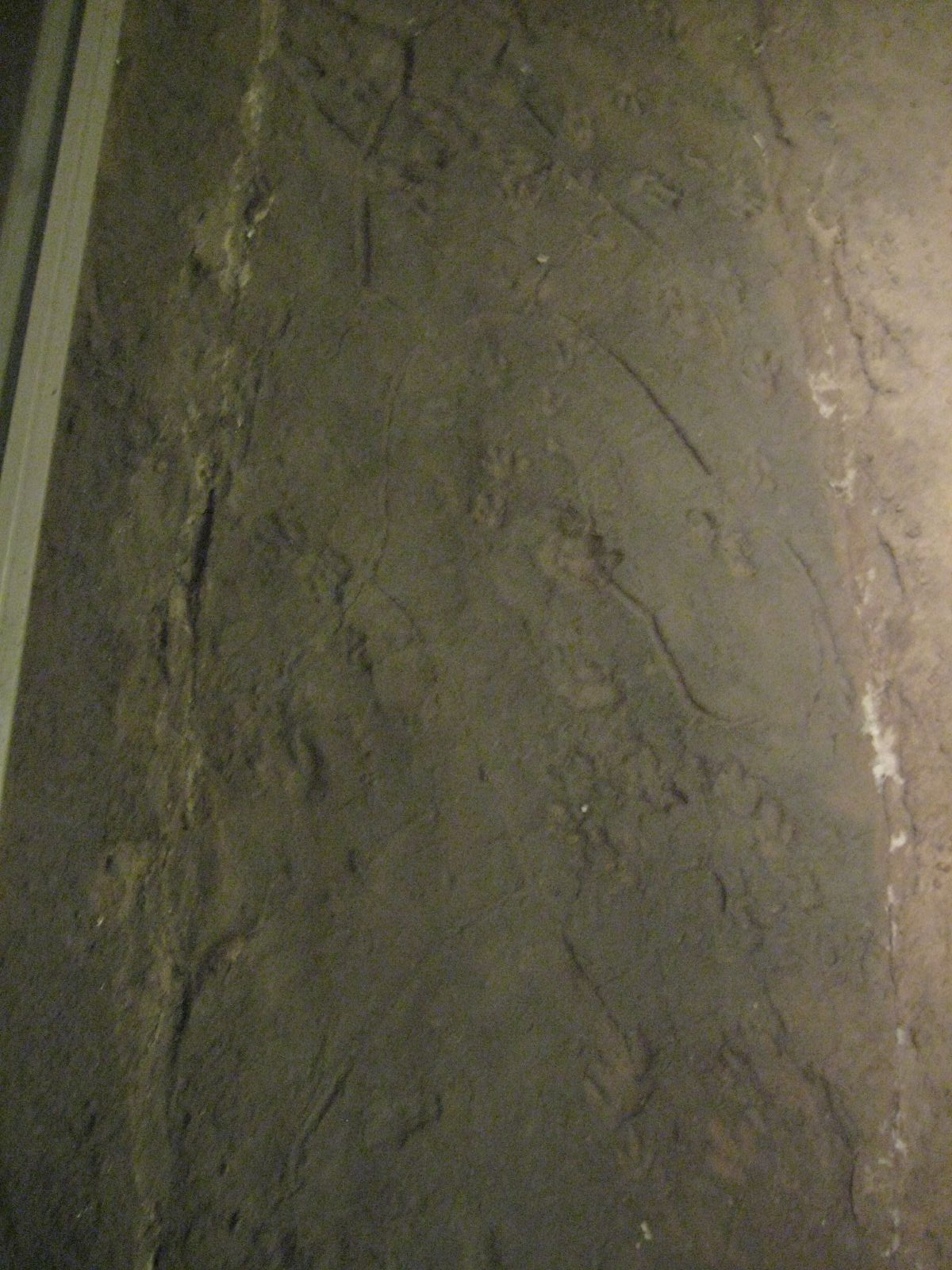 From the early Eocene Green River lake. 50 million years old